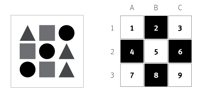 TIM-Navi-field